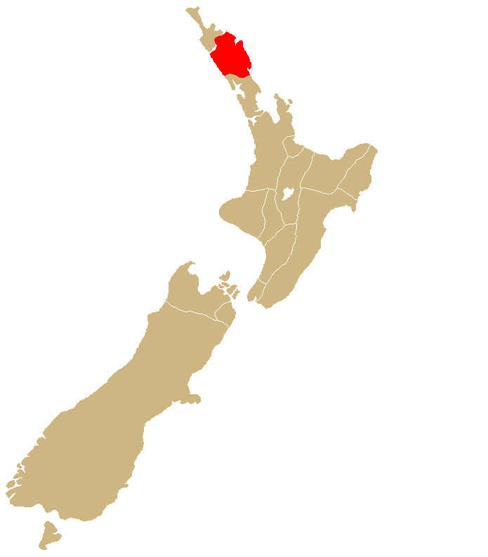 Created by myself derived from Image:IwiMap.png